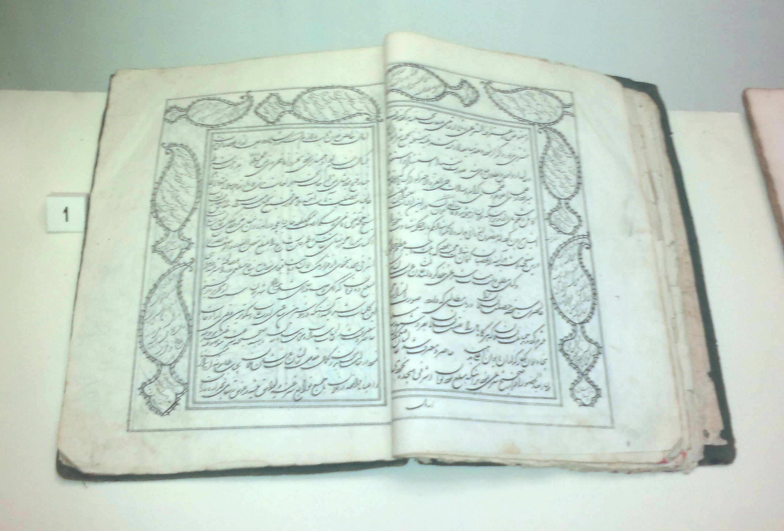 "Muhammad Ismayil" — a book by Turkish poet Kitabi-Fizuli. 1232/1816